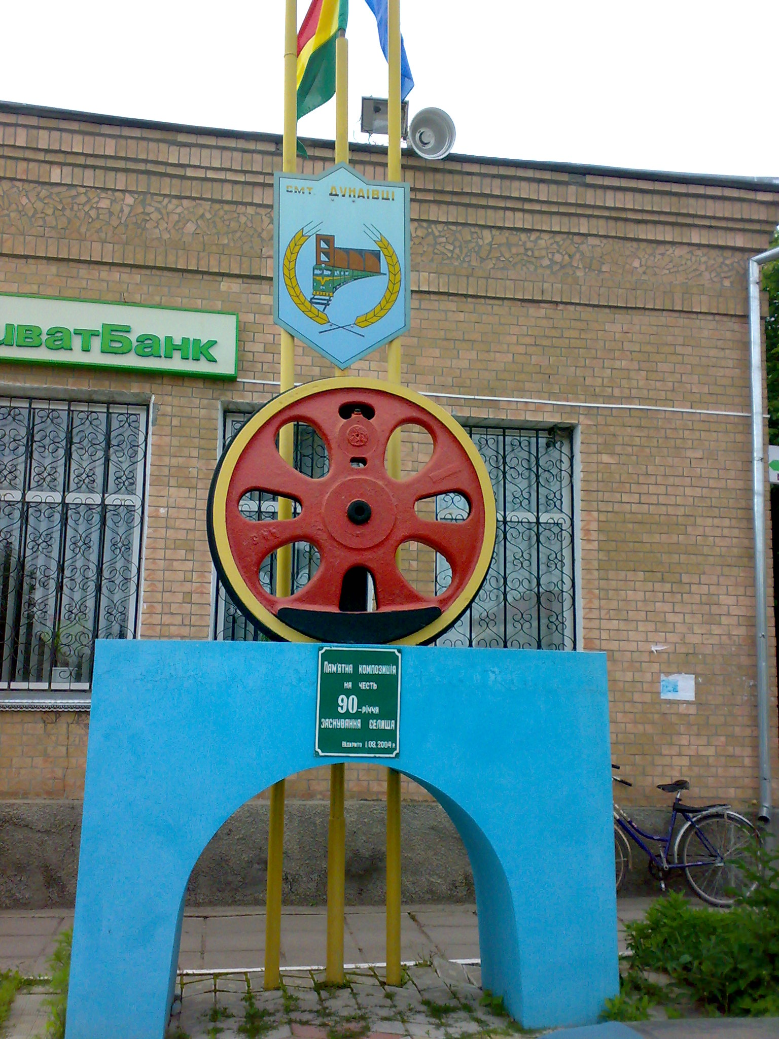 Monument to the 90th anniversary of the urban-type-settlement Dunaivtsi